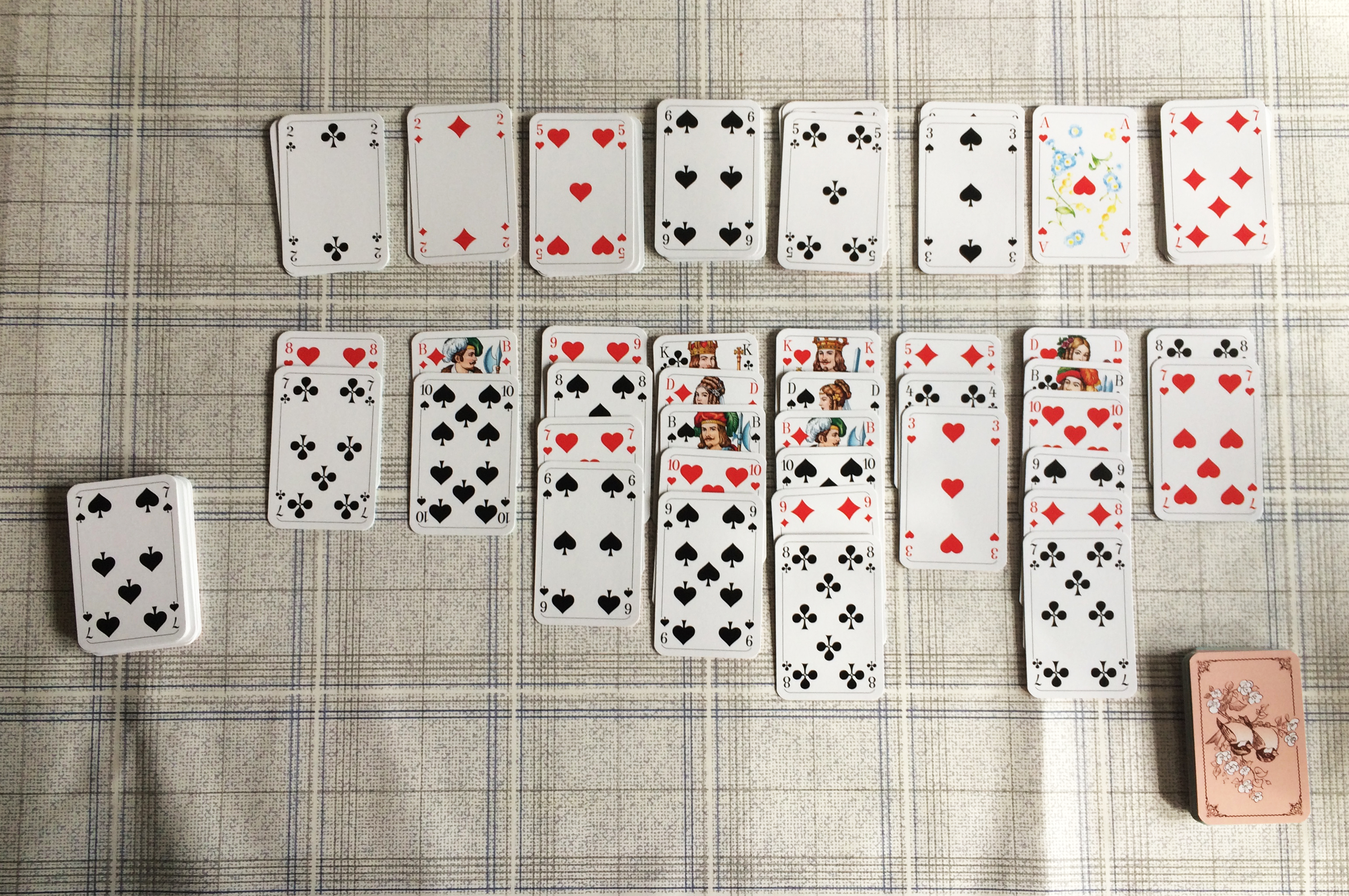 Patience "Rot und Schwarz" ("Rot und Schwarz")